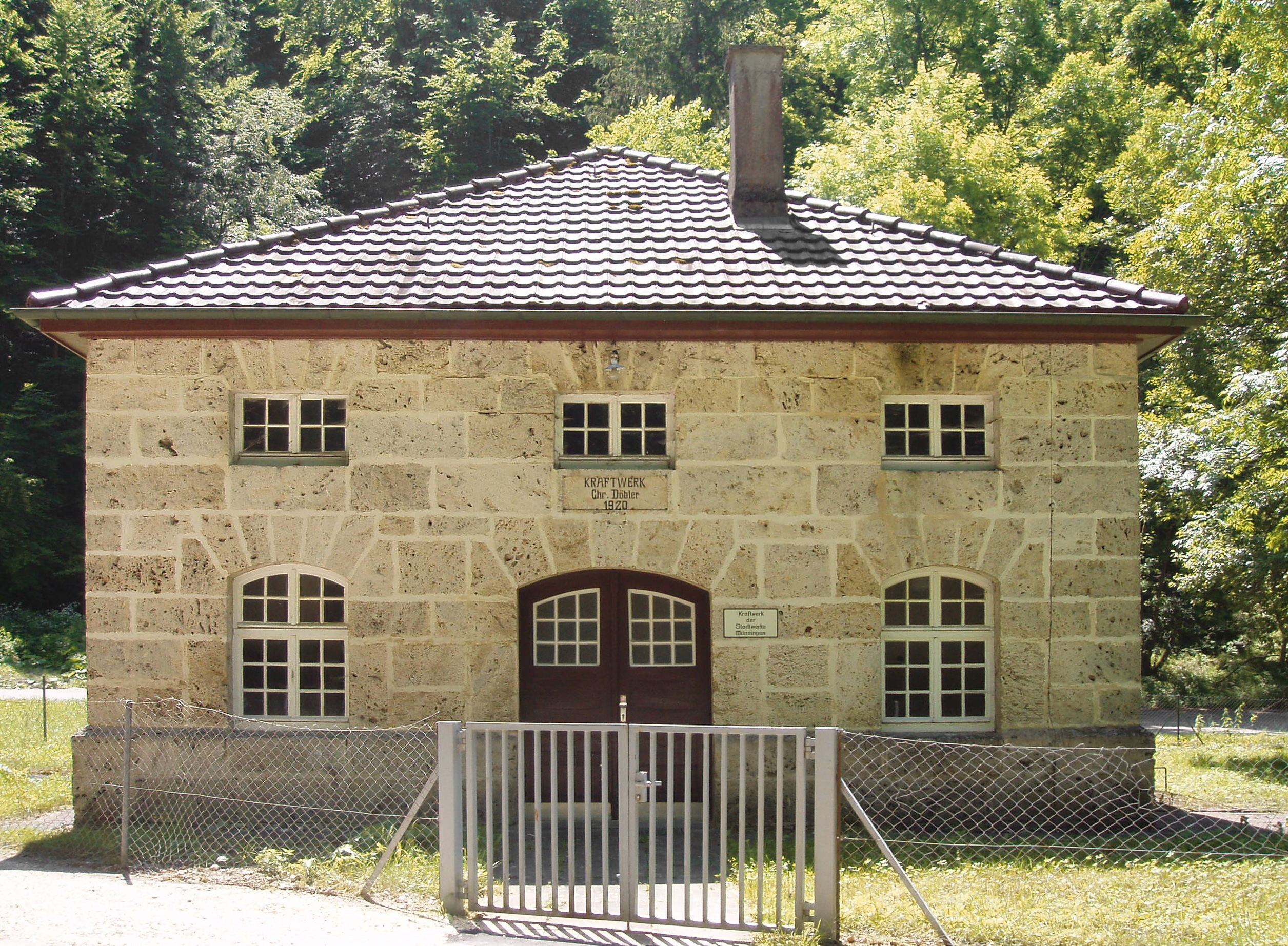 Activ water powerstation at Seeburg near Bad Urach, Swabian Alb; edified 1920. 2 old turbines fed by the Karst springwater (resurgence) of the Erms produce 60 kW (avarage at 18,6m of available head). The building is made of stones sawn out of the springs huge deposit of tufa (phytogenicly precipitated from in water saturated calcium by moss and sweetwater algae).